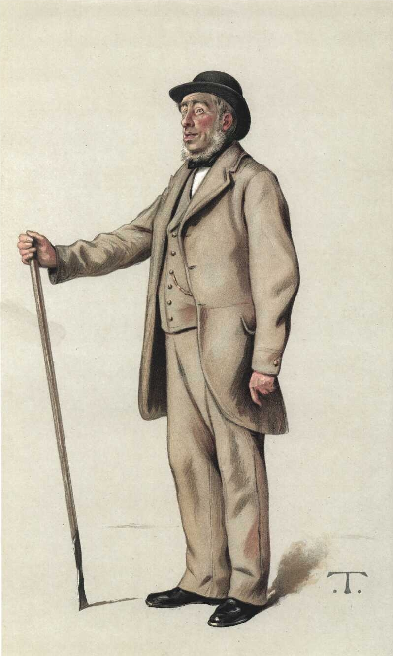 Caricature of John Bennet Lawes (1814–1900), English entrepeneur and agricultural scientist. Caption read "Agricultural Science".